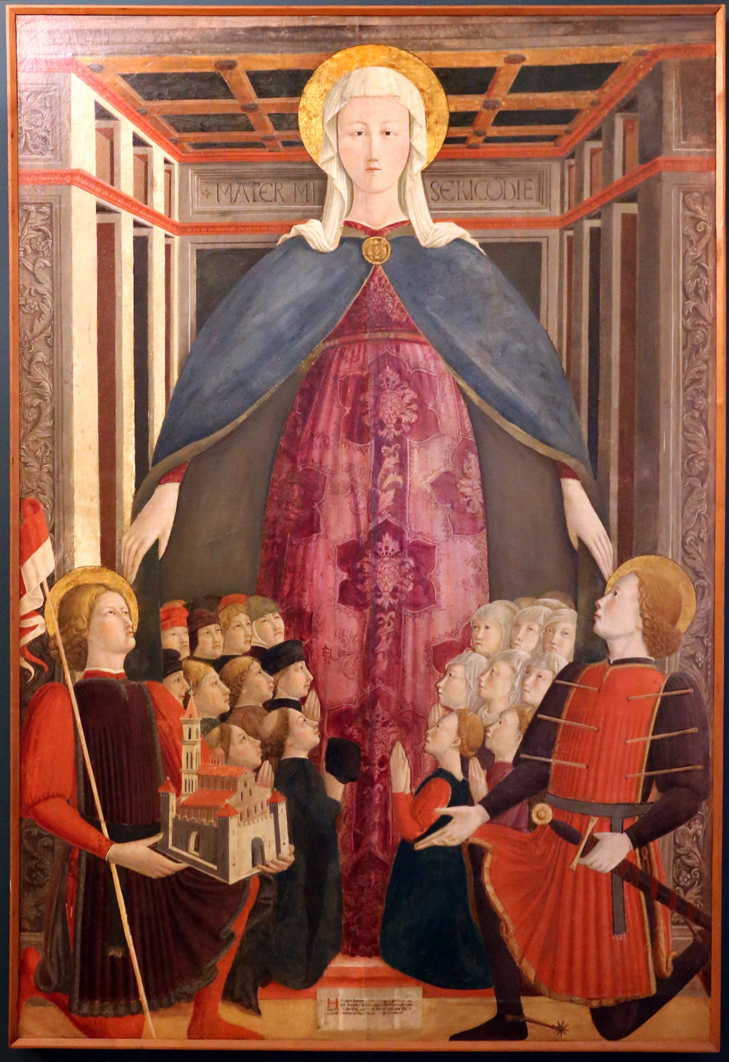 Misericordia exhibition in Senigalllia (2016)